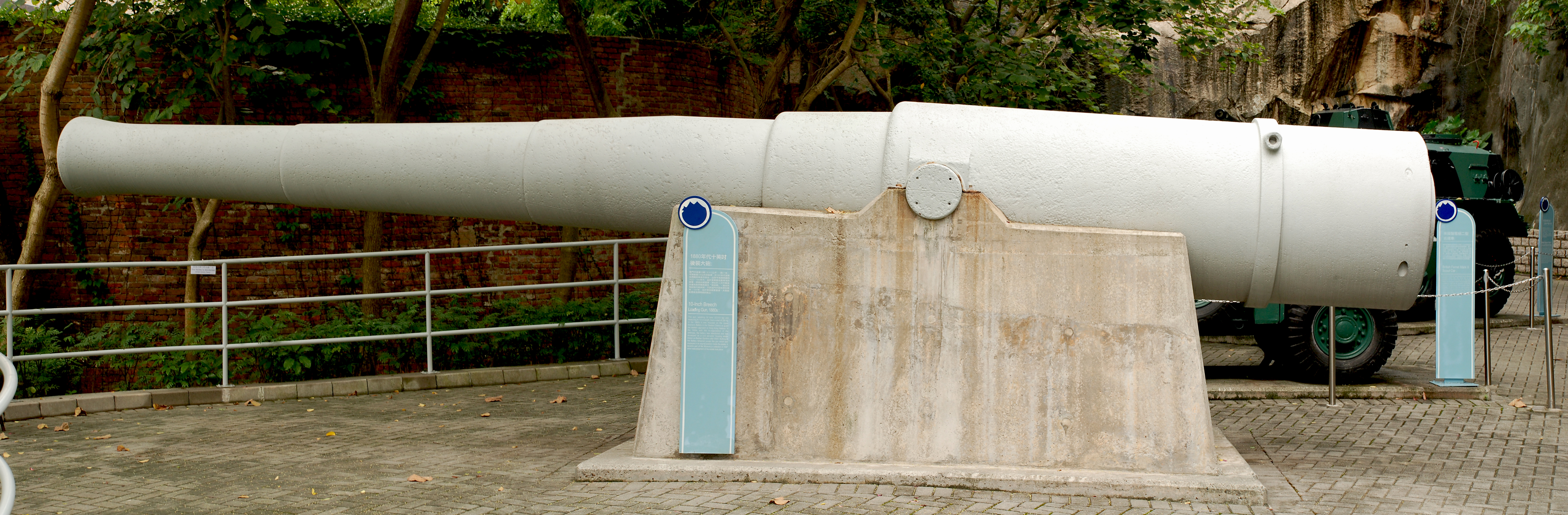 Hong Kong Museum of Coastal Defence: British 10 inch breech-loading gun, 1880s